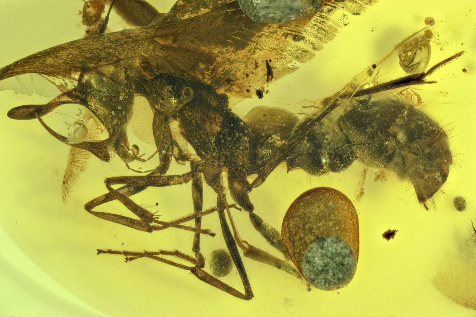 Profile view of a Linguamyrmex rhinocerus worker. Burmese amber, Earliest Cenomanian; Noije Bum Village, near Myitkyina, Kachin State, Myanmar Nanjing Institute of geology and paleontology, Nanjing, Jiangsu, China. Ant web specimen FANTWEB00016